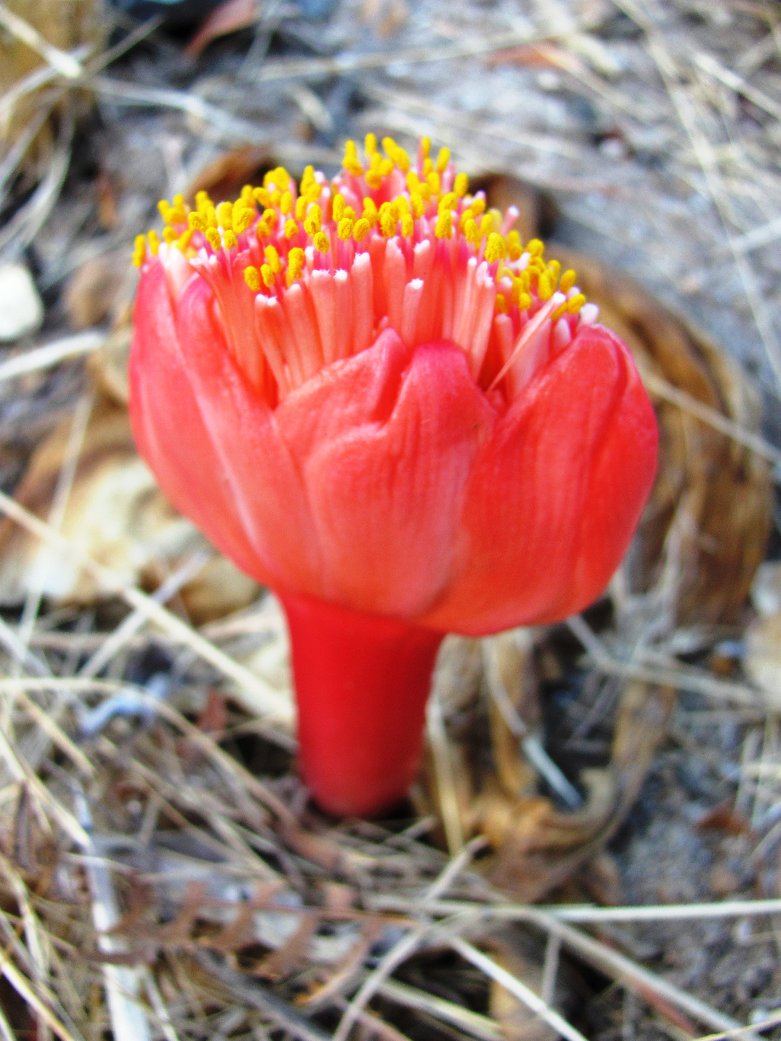 Haemanthus sanguineus geophyte plant of cape Fynbos vegetation. South Africa.